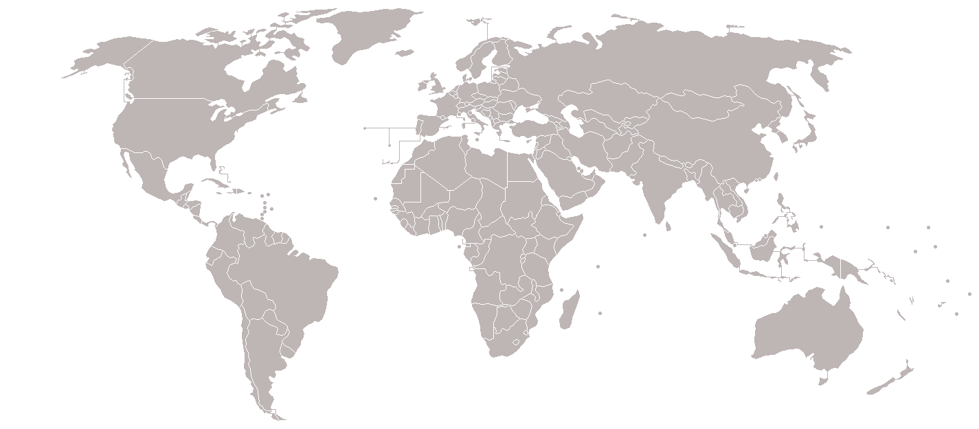 Blank map of World with country borders